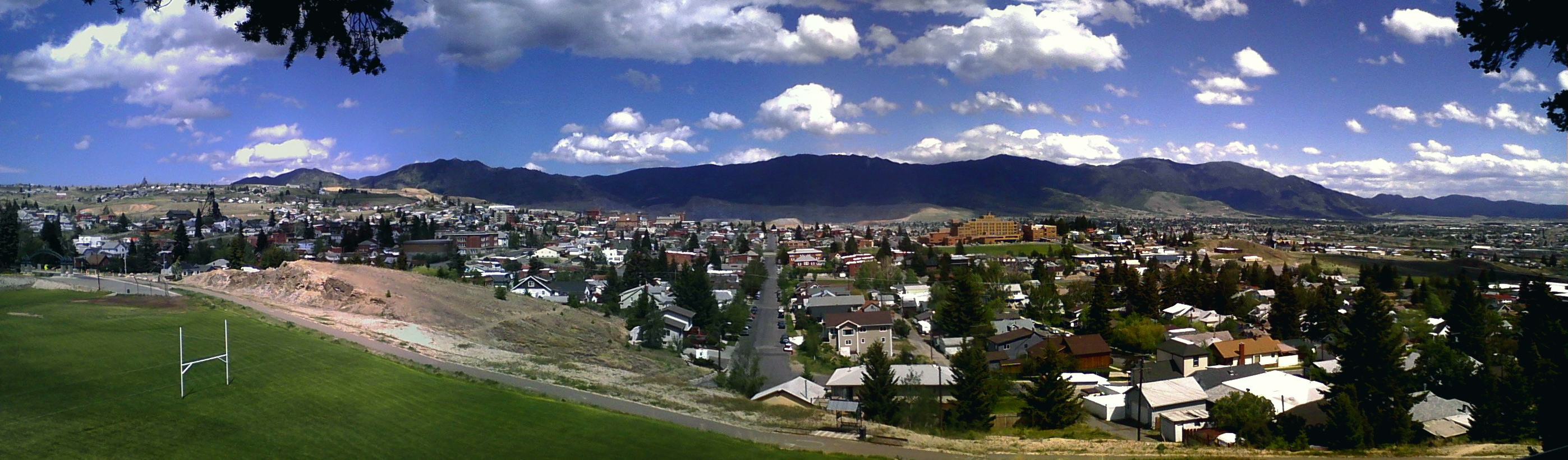 Panorama view of Butte, Montana as seen from the campus of Montana Tech